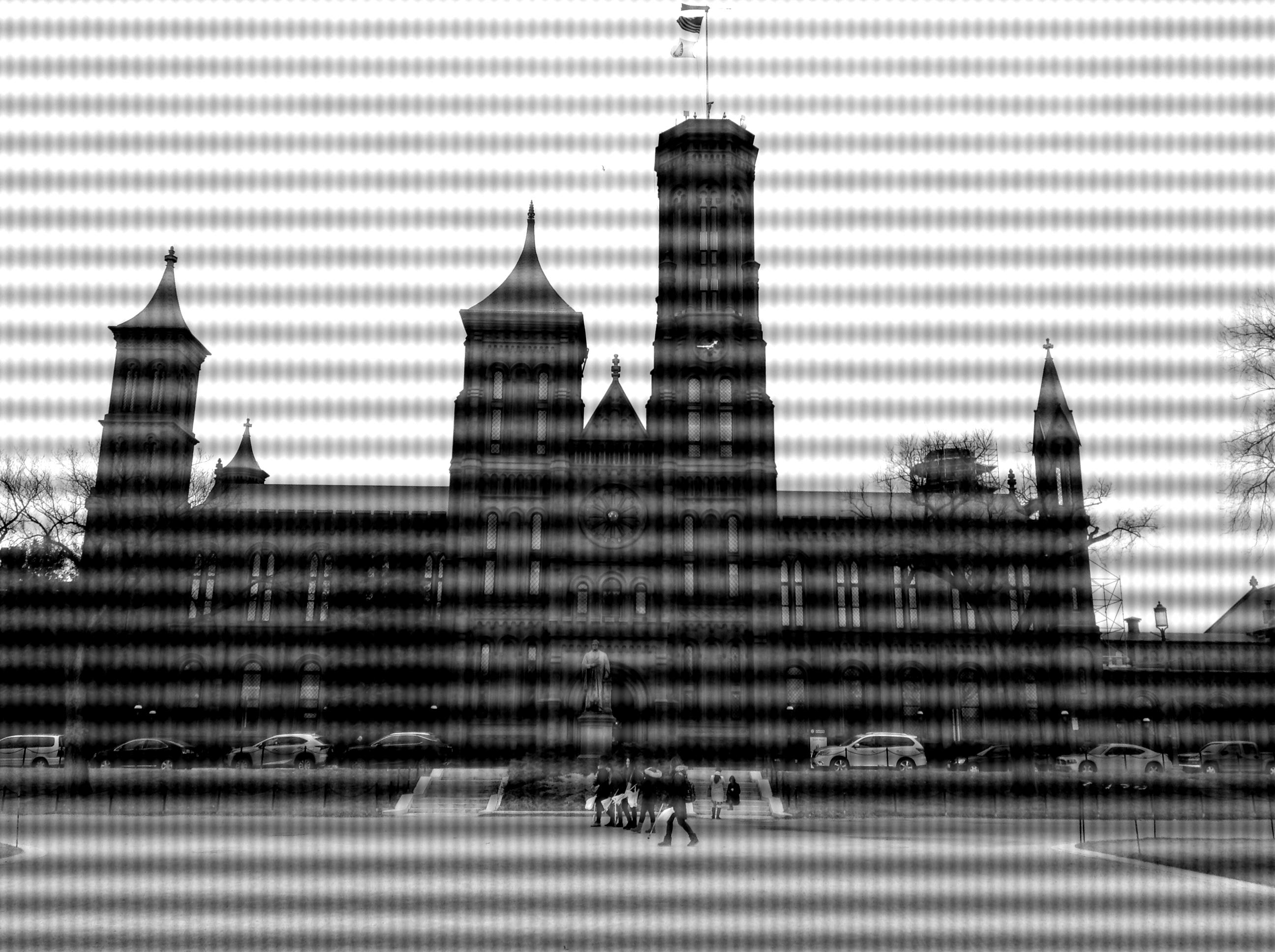 An image I took of the Smithsonian Institution Building while I was in Washington D.C. that I have injected with periodic noise.